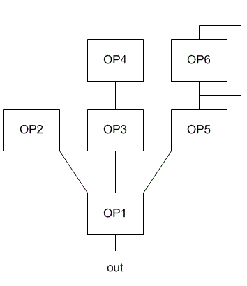 Frequency modulation synthesis - algo # 16